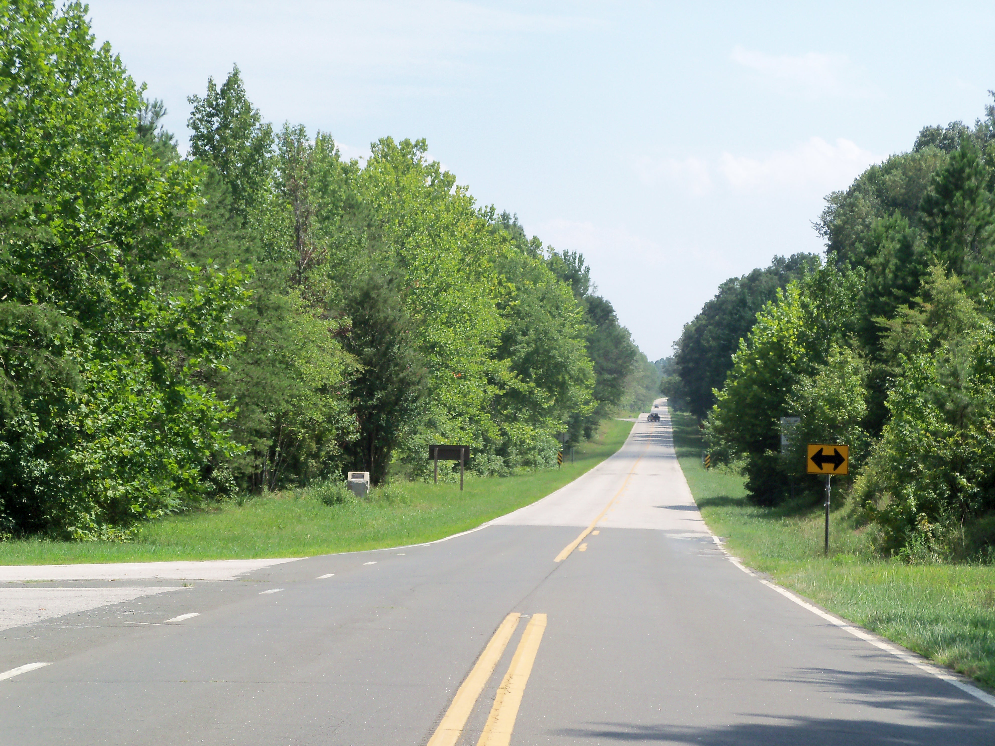 US 15 South